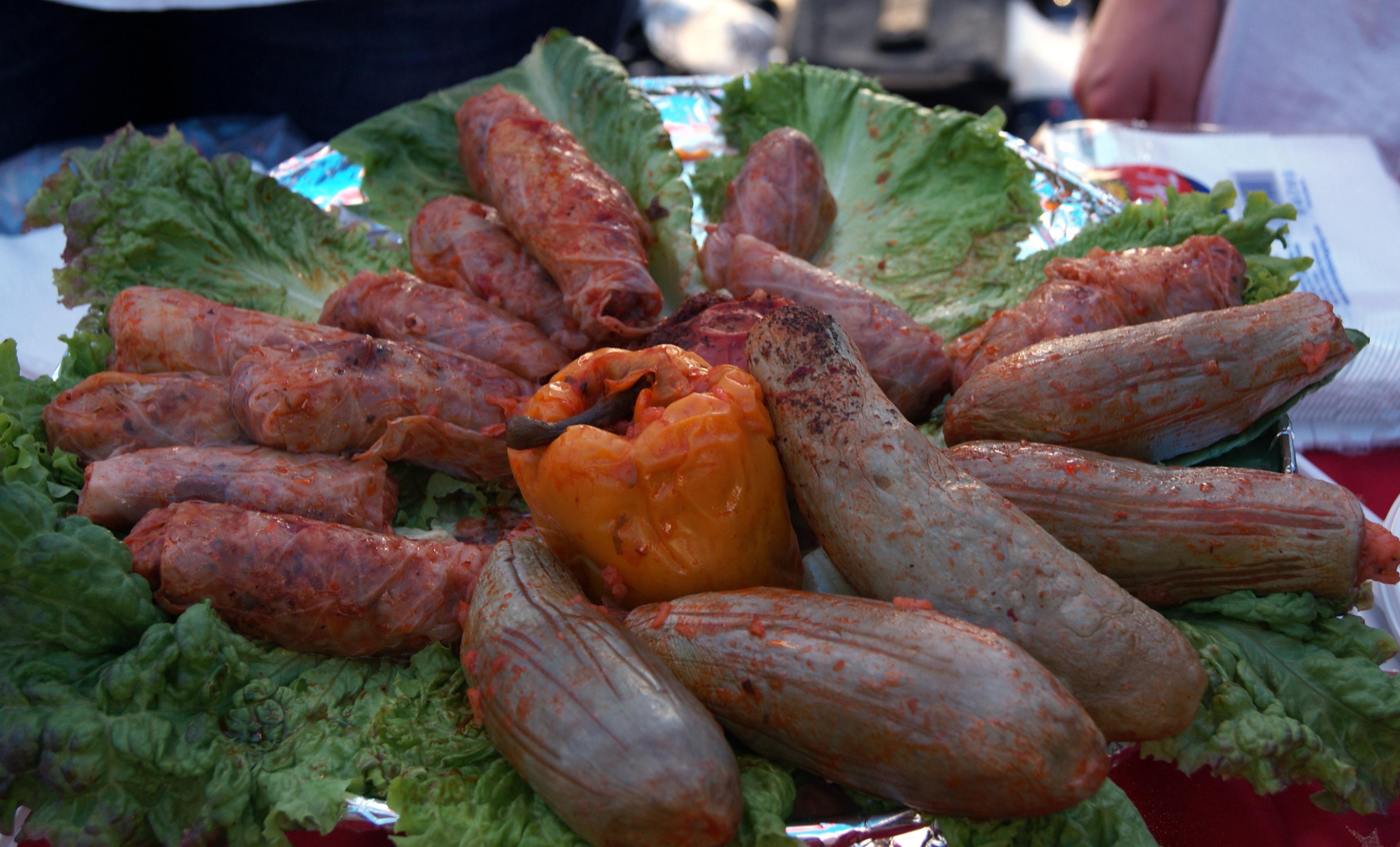 "Oudoulie" dolma festival, Armenia, Musa Ler